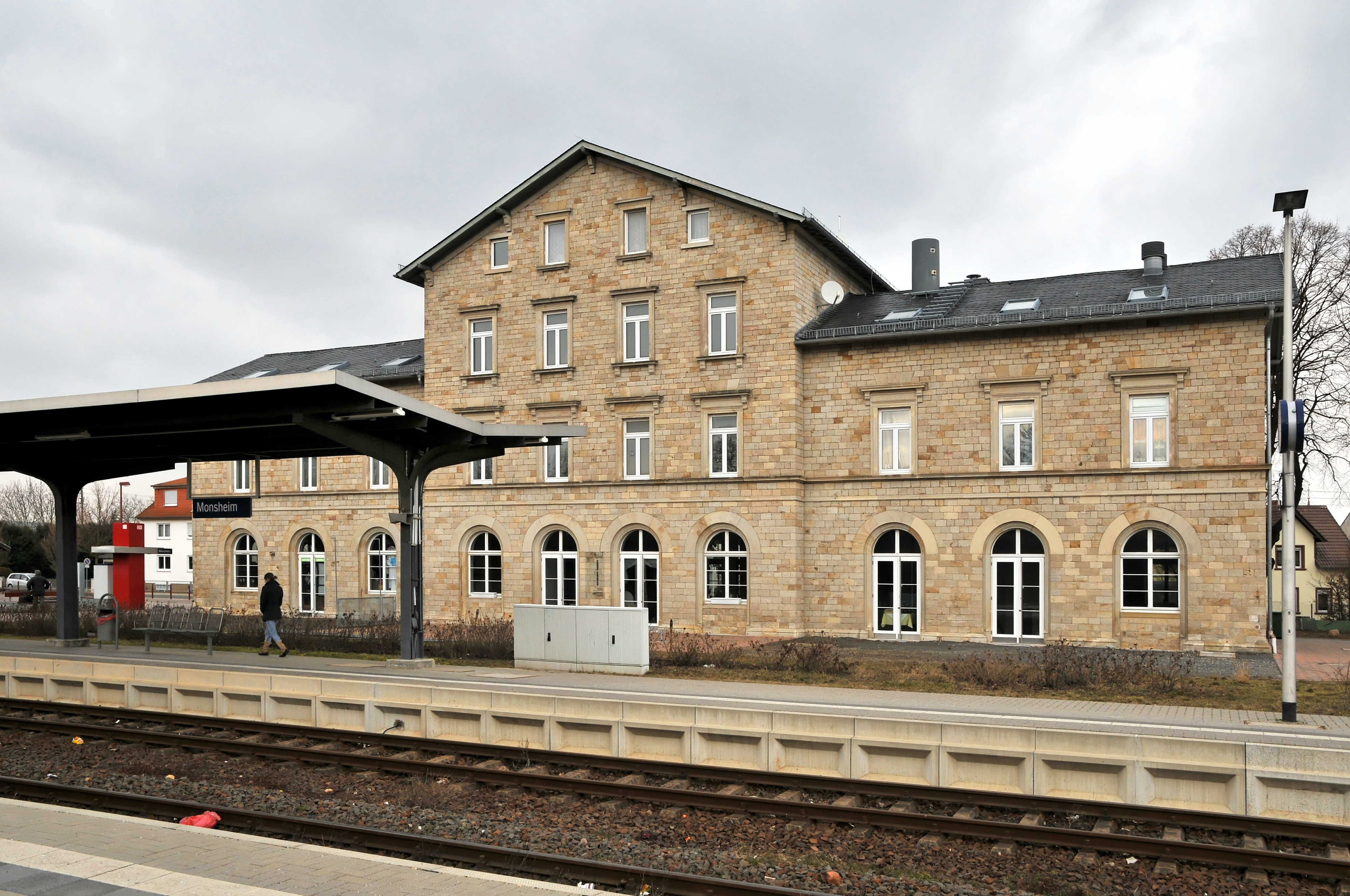 Train Station of Monsheim